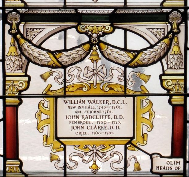 Photograph of stained glass (C E Kempe) in the Grundy Library, Abingdon School containing names of William Walker, John Radcliffe and John Clarke.